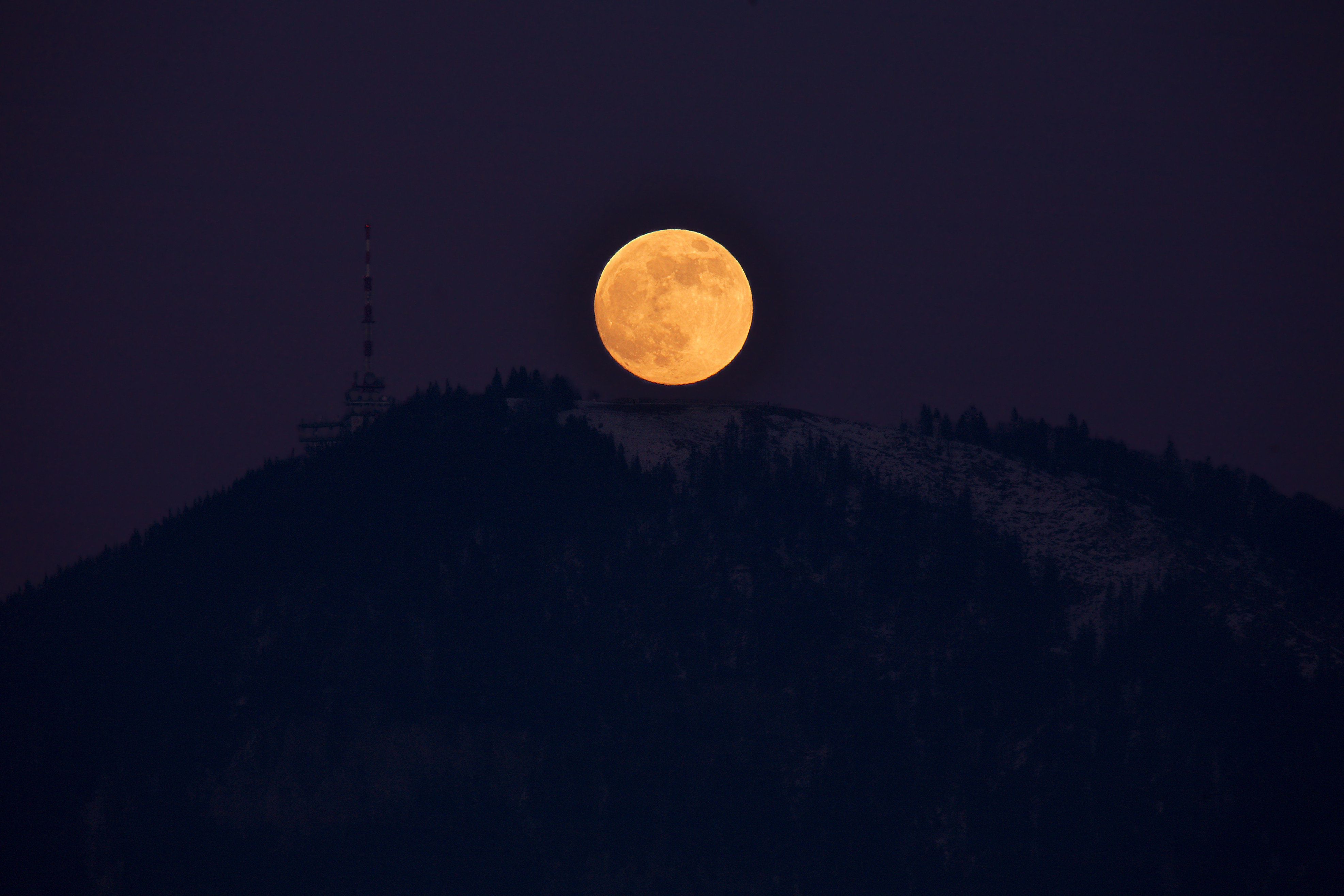 Top of Gaisberg and rising moon